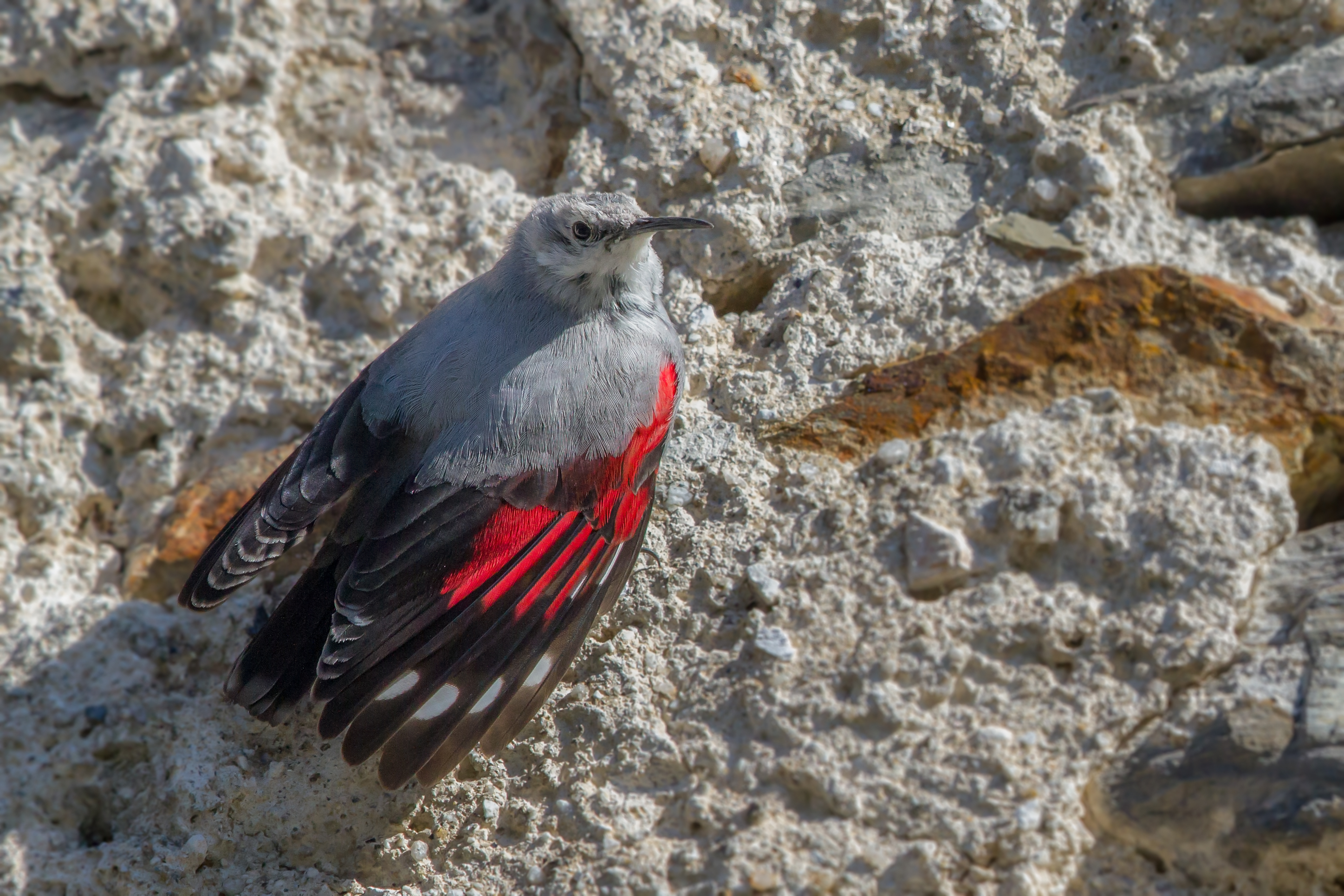 Wallcreeper